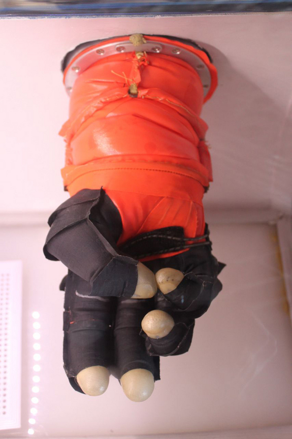 EVA glove prototype with anthropomorphic fingertips.